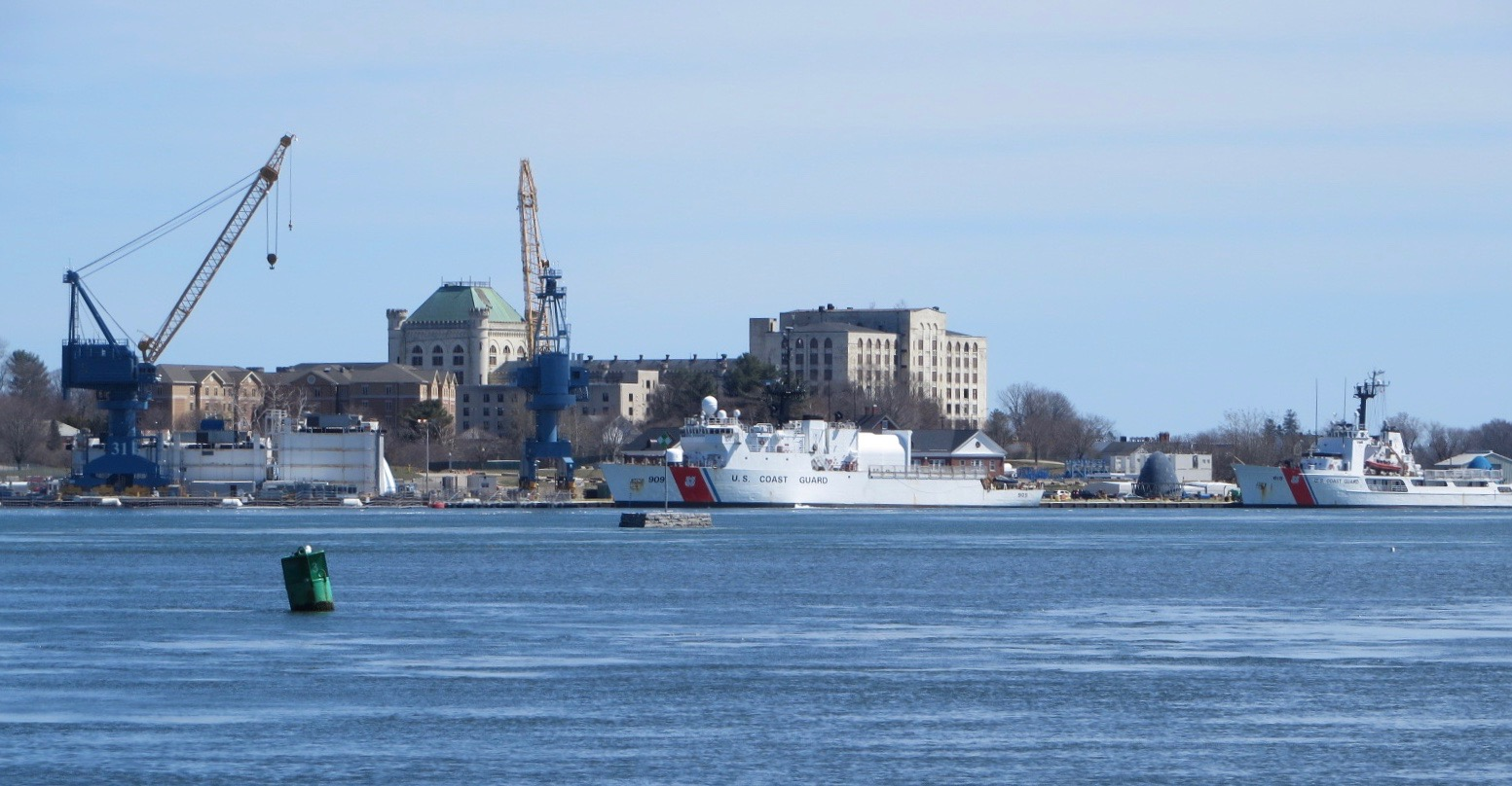 Seavey's Island, Kittery, viewed from Prescott Park in Portsmouth